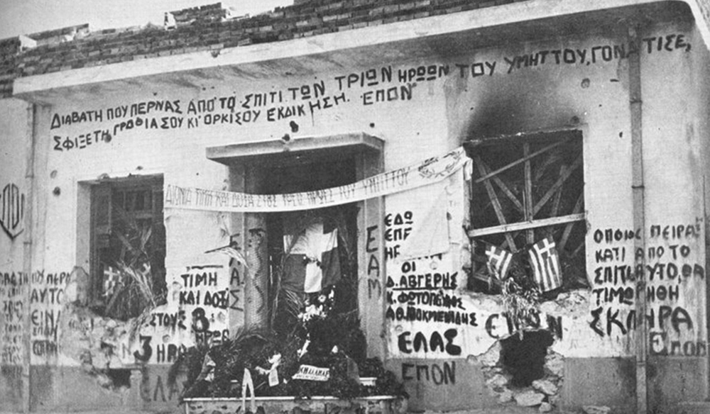 Destroyed small house where three members United Panhellenic Organization of Youth (EPON) took an unequal battle and killed in battle against 200 nazis, April 28, 1944 Ymittos, Athens.